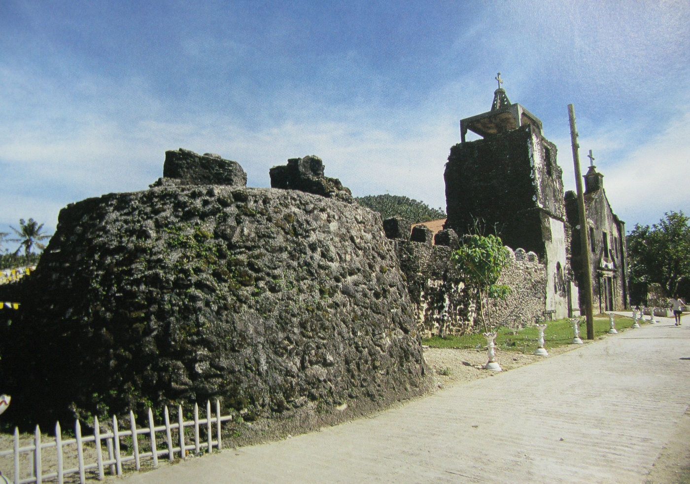 Capul Church in Capul, Northen Samar